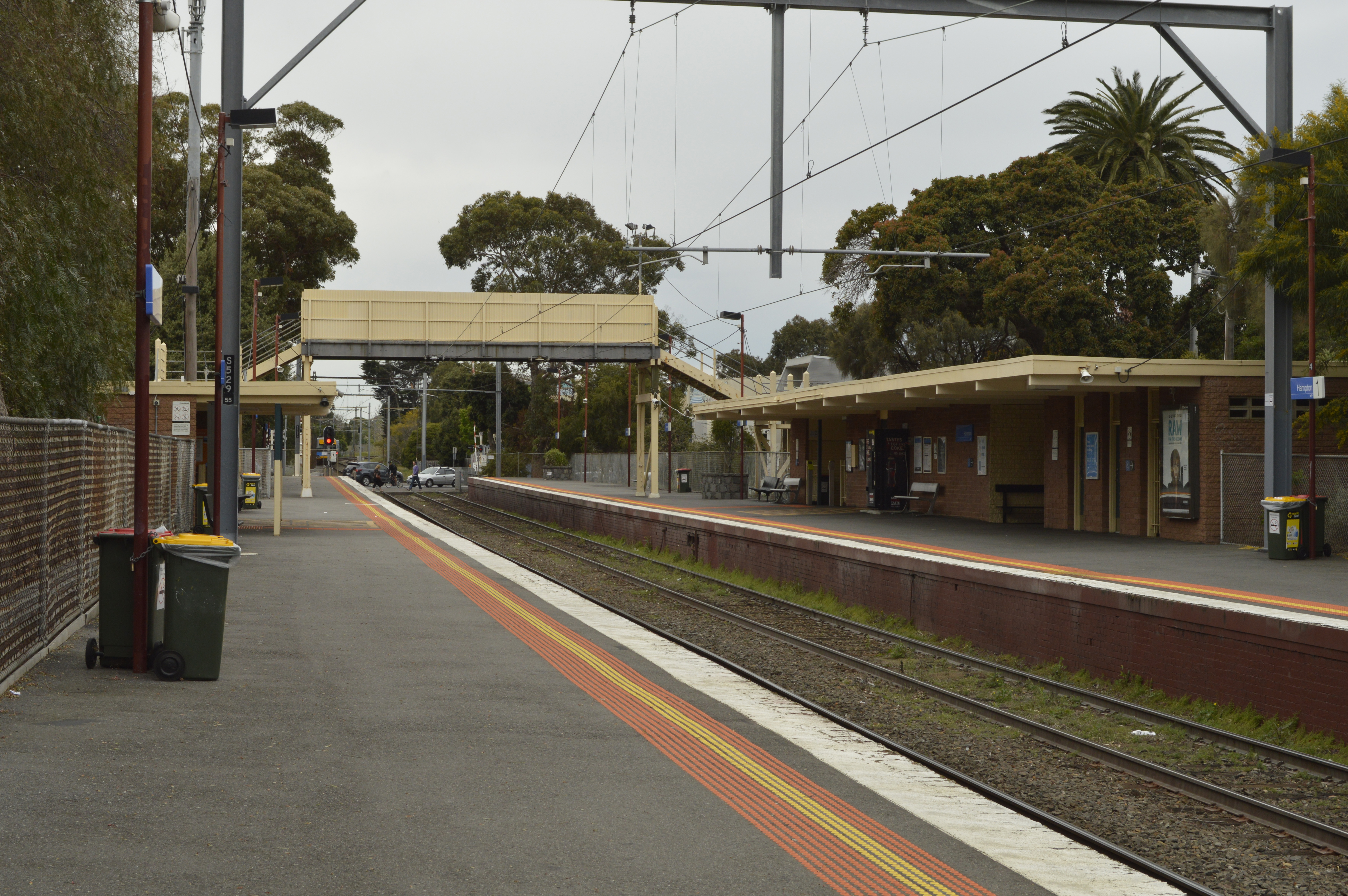 Looking south towards Sandringham